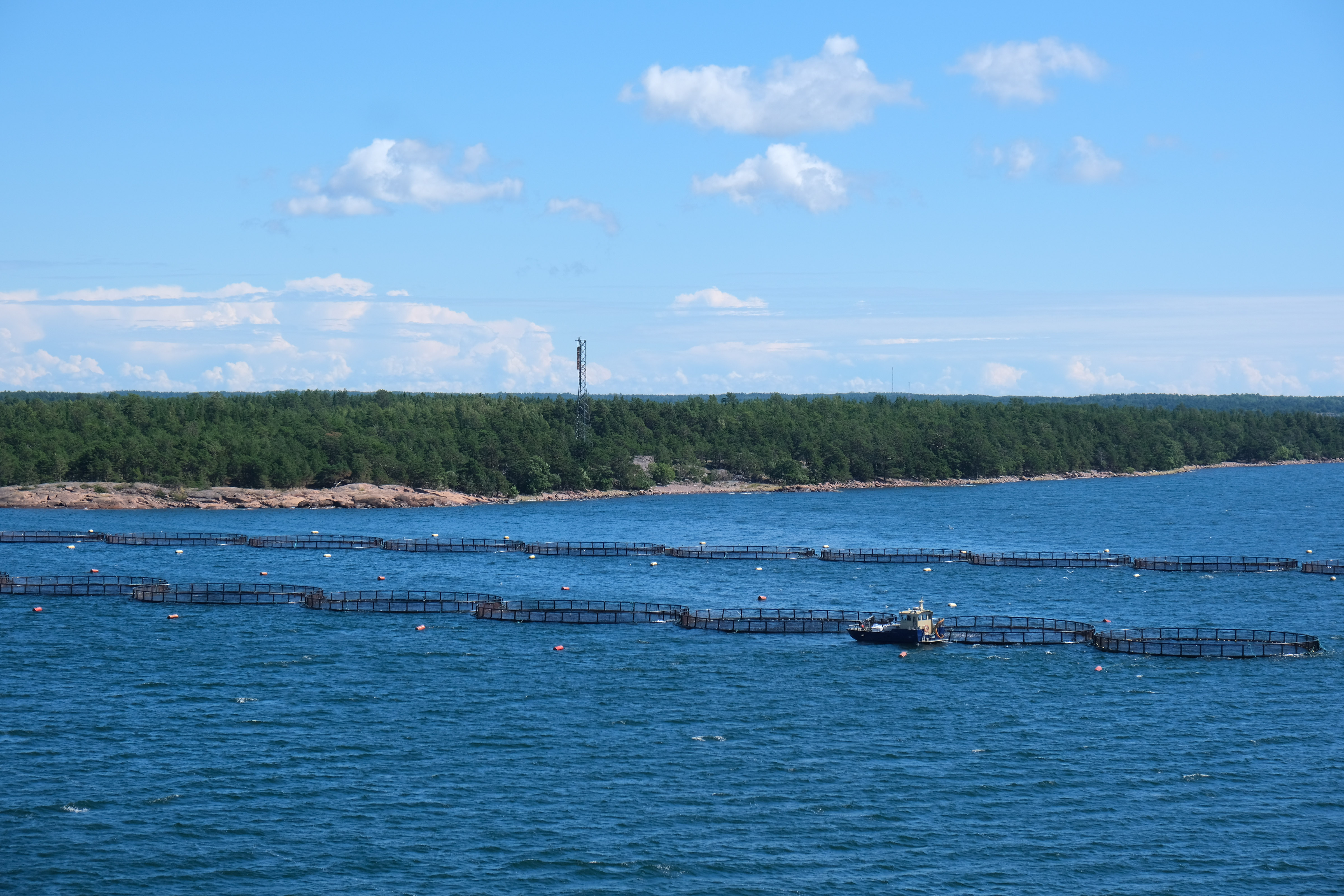 Fish farming in the Archipelago Sea.